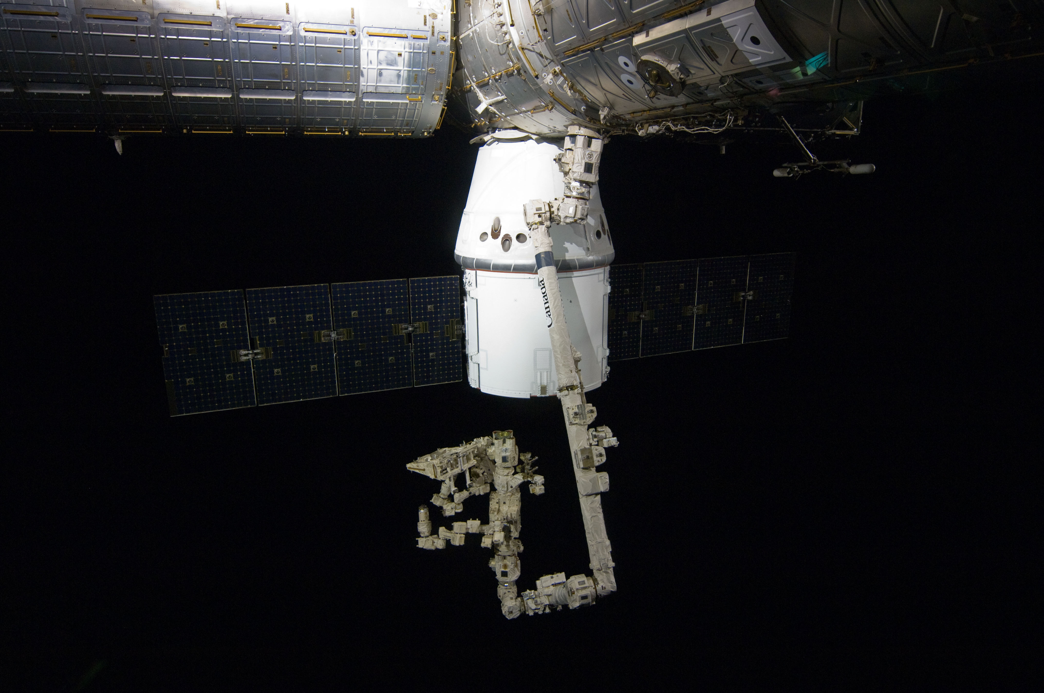 The SpaceX Dragon commercial cargo craft is berthed to the Earth-facing side of the International Space Station's Harmony node. Expedition 31 Flight Engineers Don Pettit and Andre Kuipers grappled Dragon at 9:56 a.m. (EDT) with the Candarm2 robotic arm and used it to berth Dragon to the at 12:02 p.m. May 25, 2012. Dragon became the first commercially developed space vehicle to be launched to the station to join Russian, European and Japanese resupply craft that service the complex while restoring a U.S. capability to deliver cargo to the orbital laboratory. Dragon is scheduled to spend about a week docked with the station before returning to Earth on May 31 for retrieval.